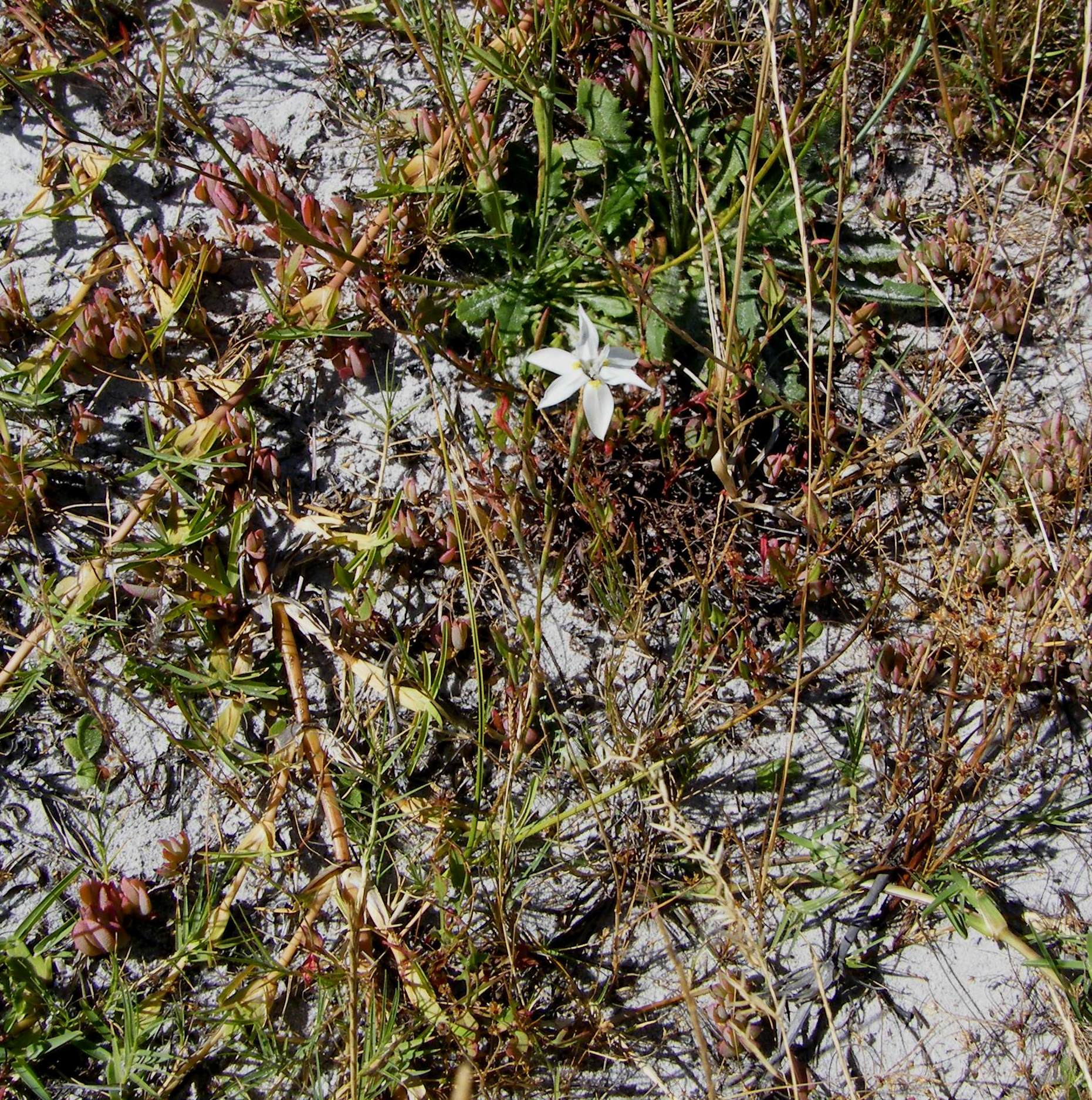 Moraea